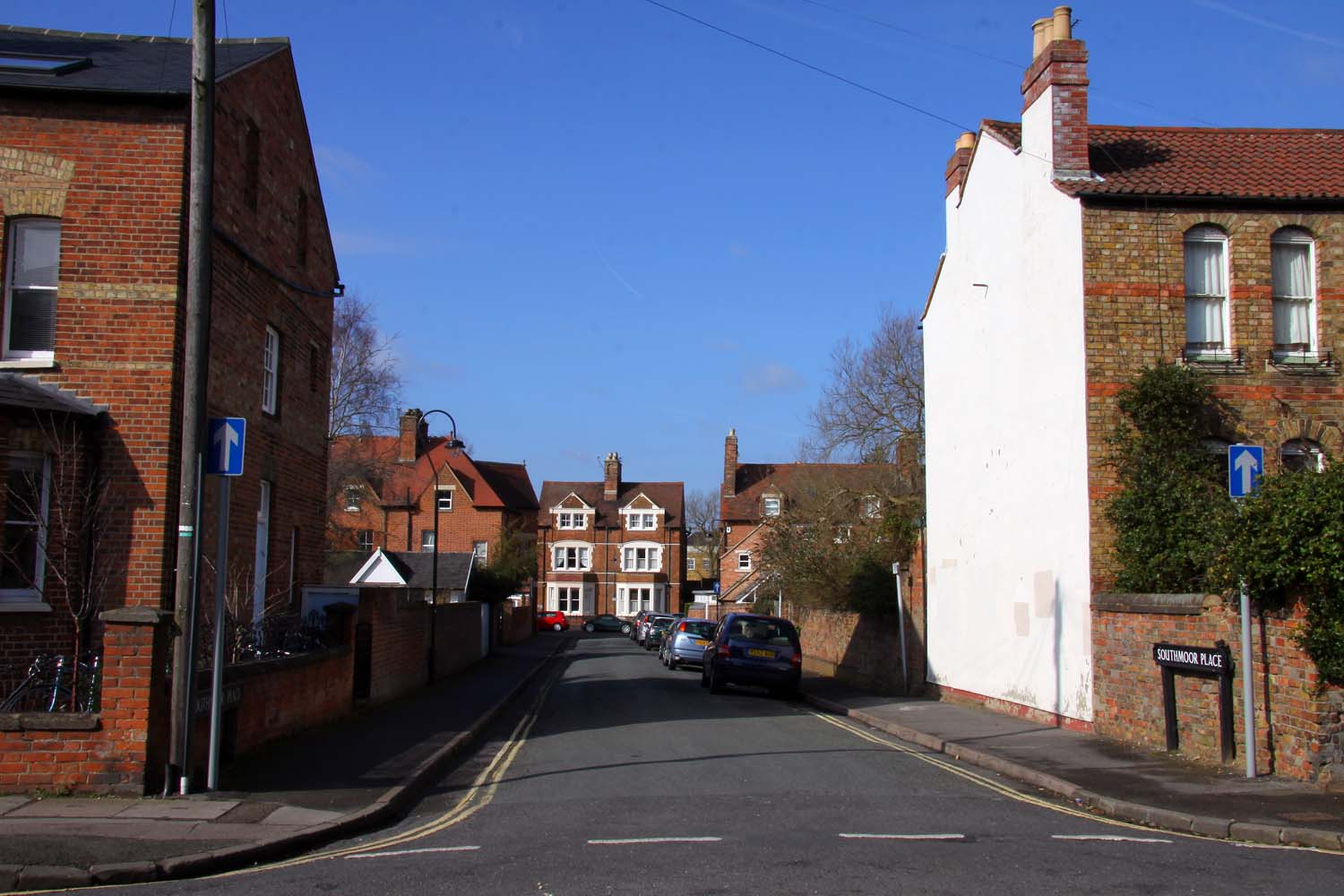 Southmoor Place, Oxford, seen from Kingston Road